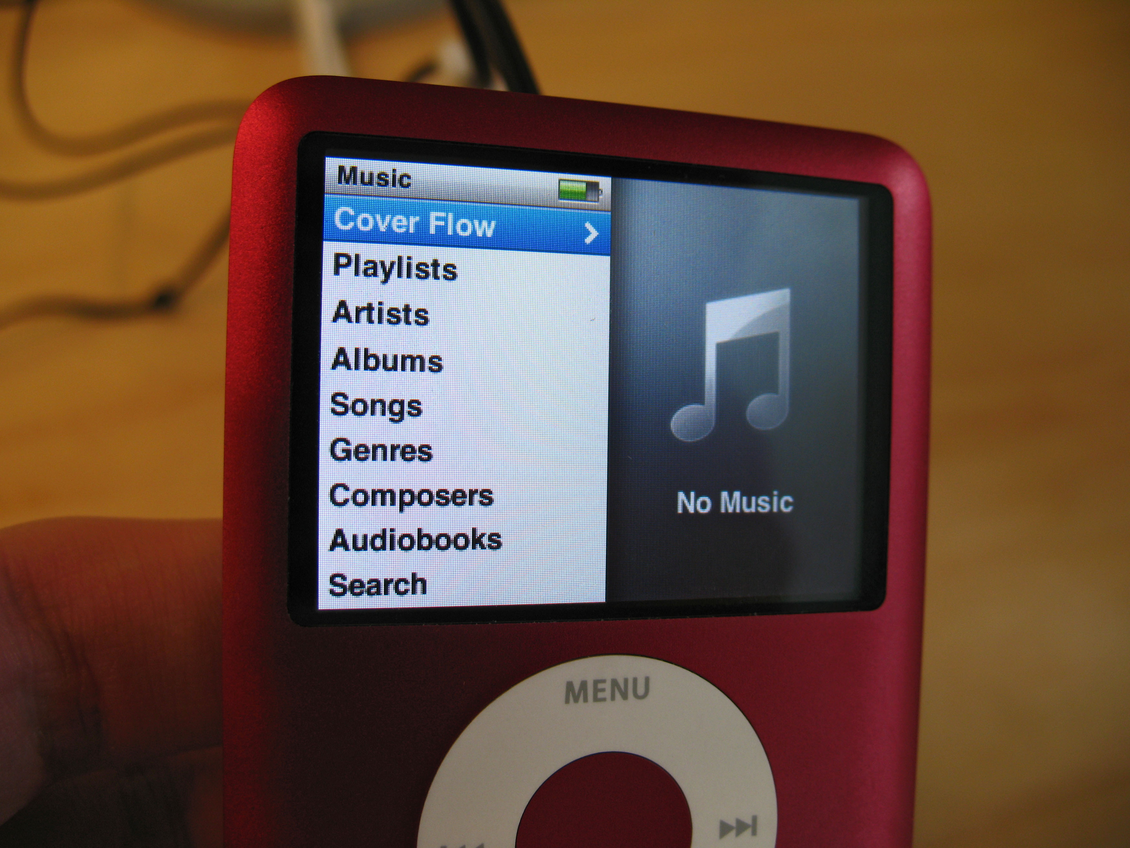 Apple iPod nano 3G Product Red.